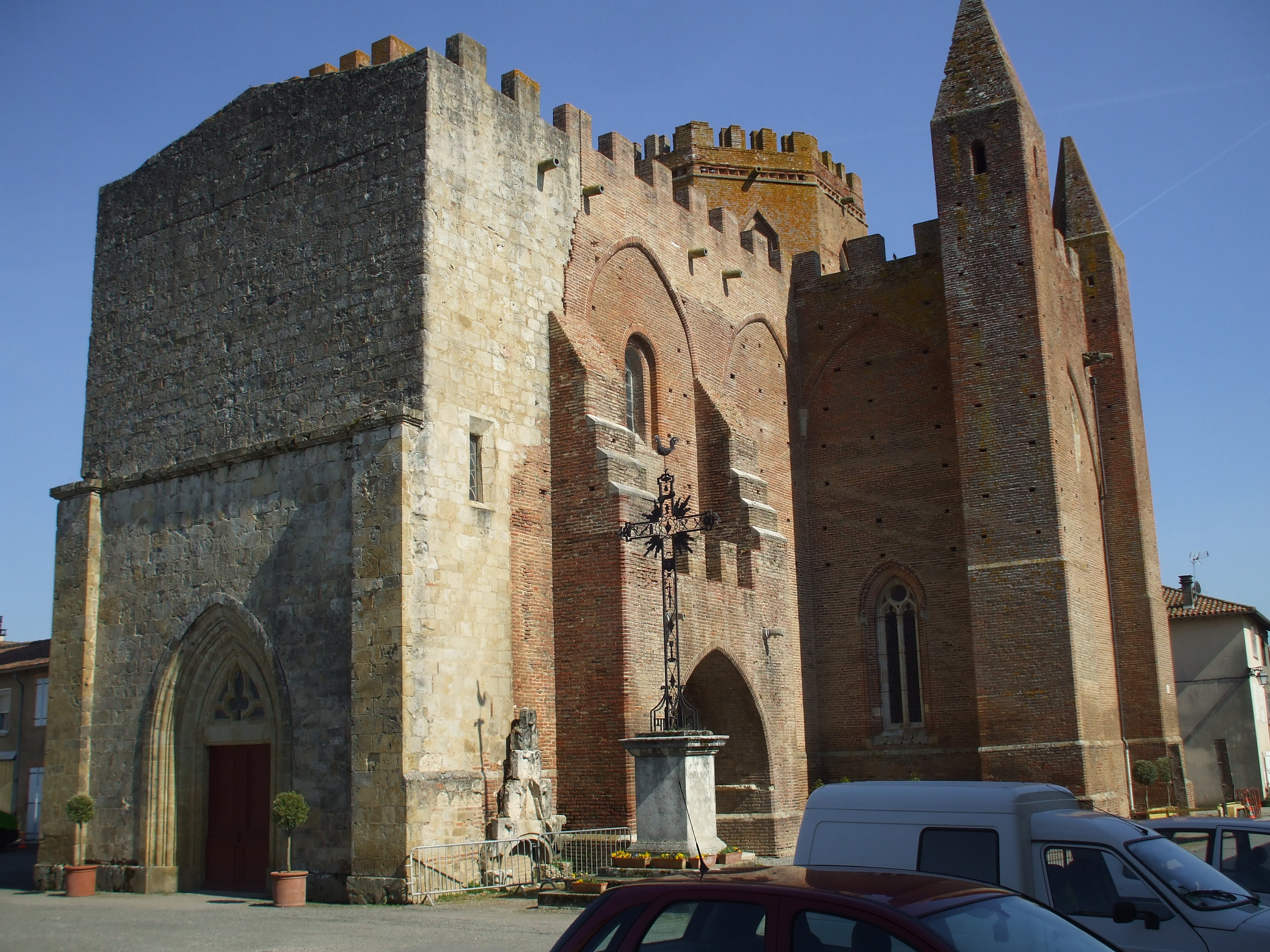 A fortified church in Simorre, Gers, France.